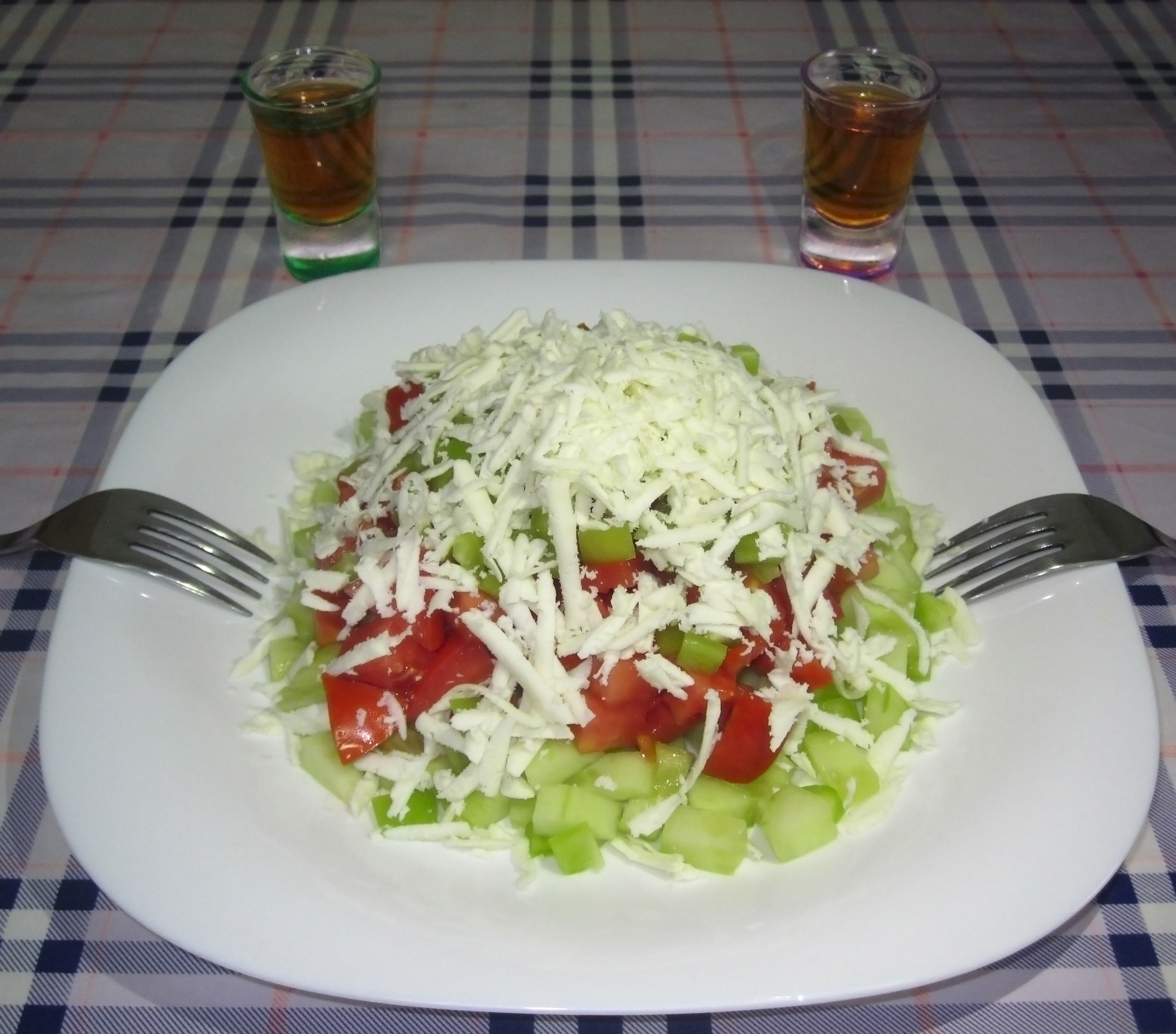 Salad with cucumber, tomato, peppers and cheese called shopska with traditional macedonian brandy - rakija.